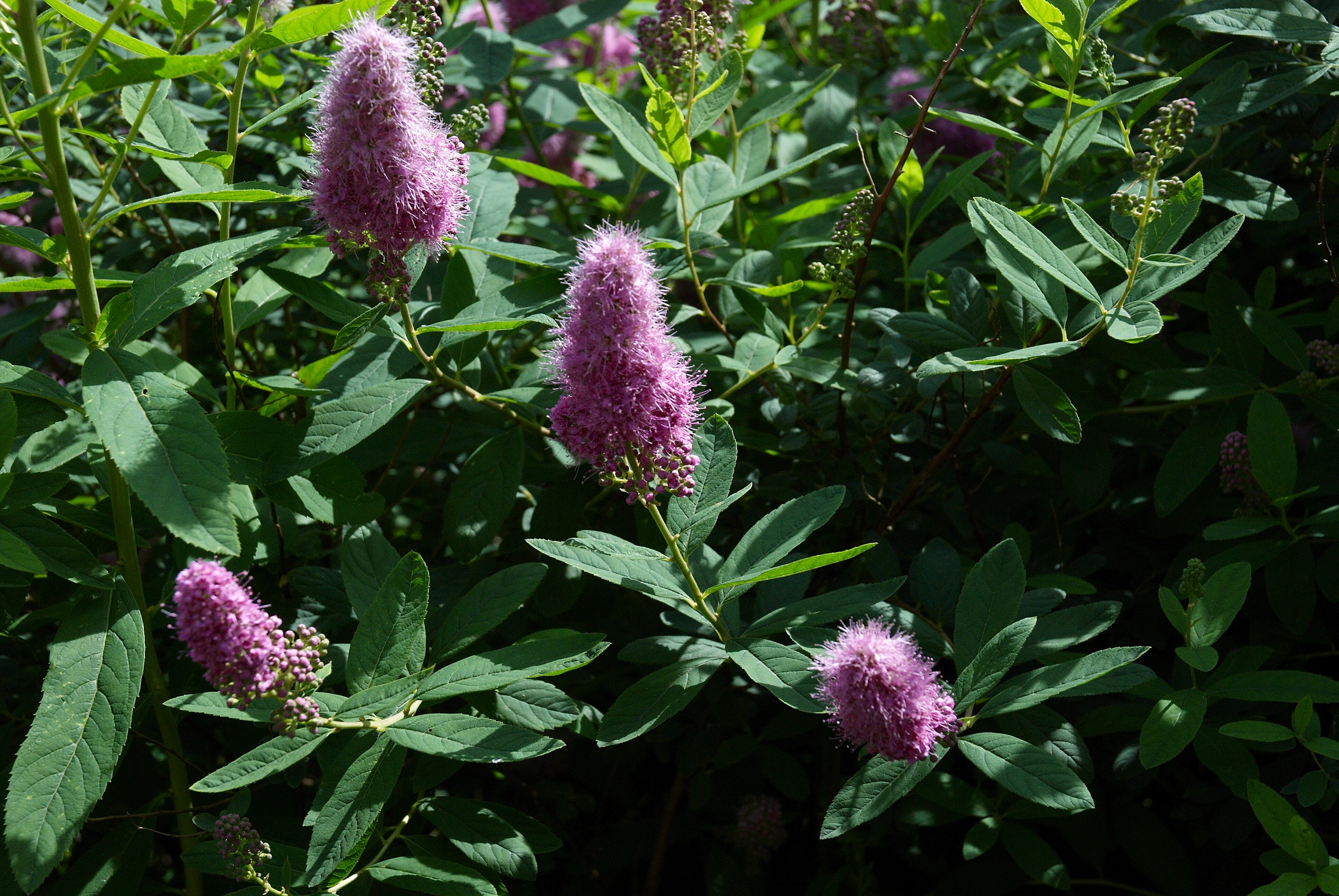 Spiraea x billardii. This photo has been taken in Belgium. Other photos of the same plant